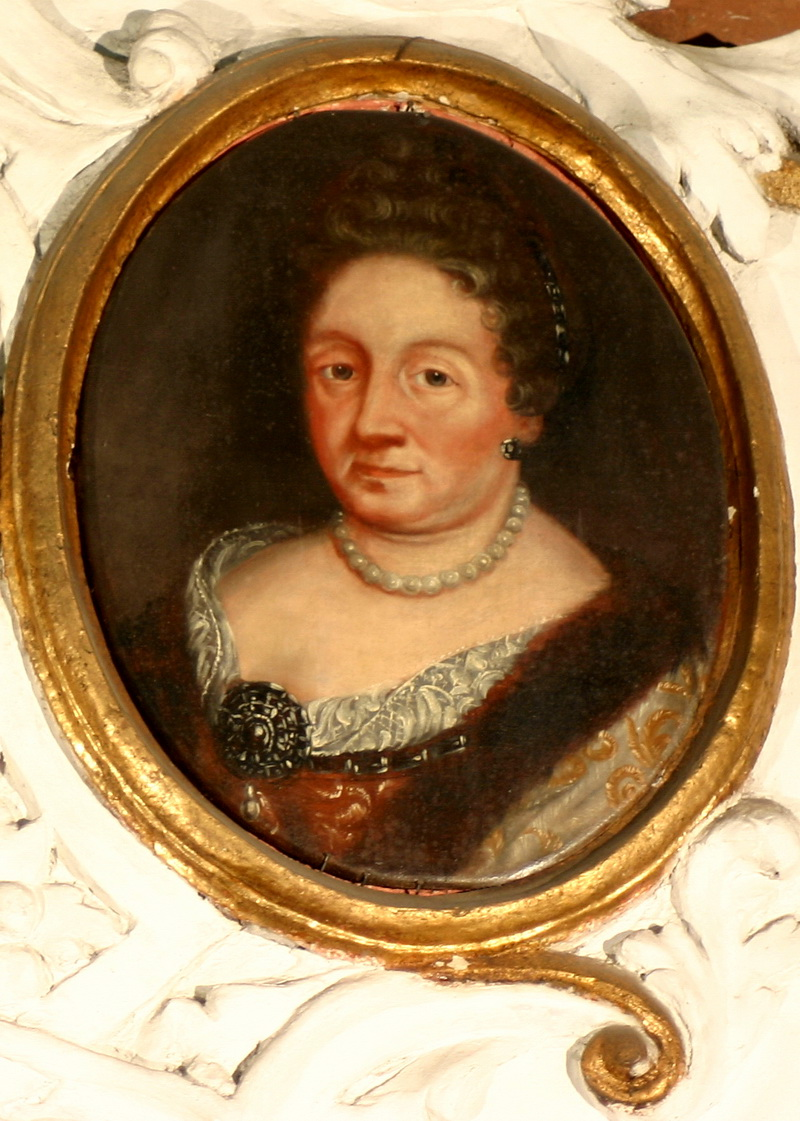 Sophie Anna Czarnkowska wife of Jan Karol Opalinski